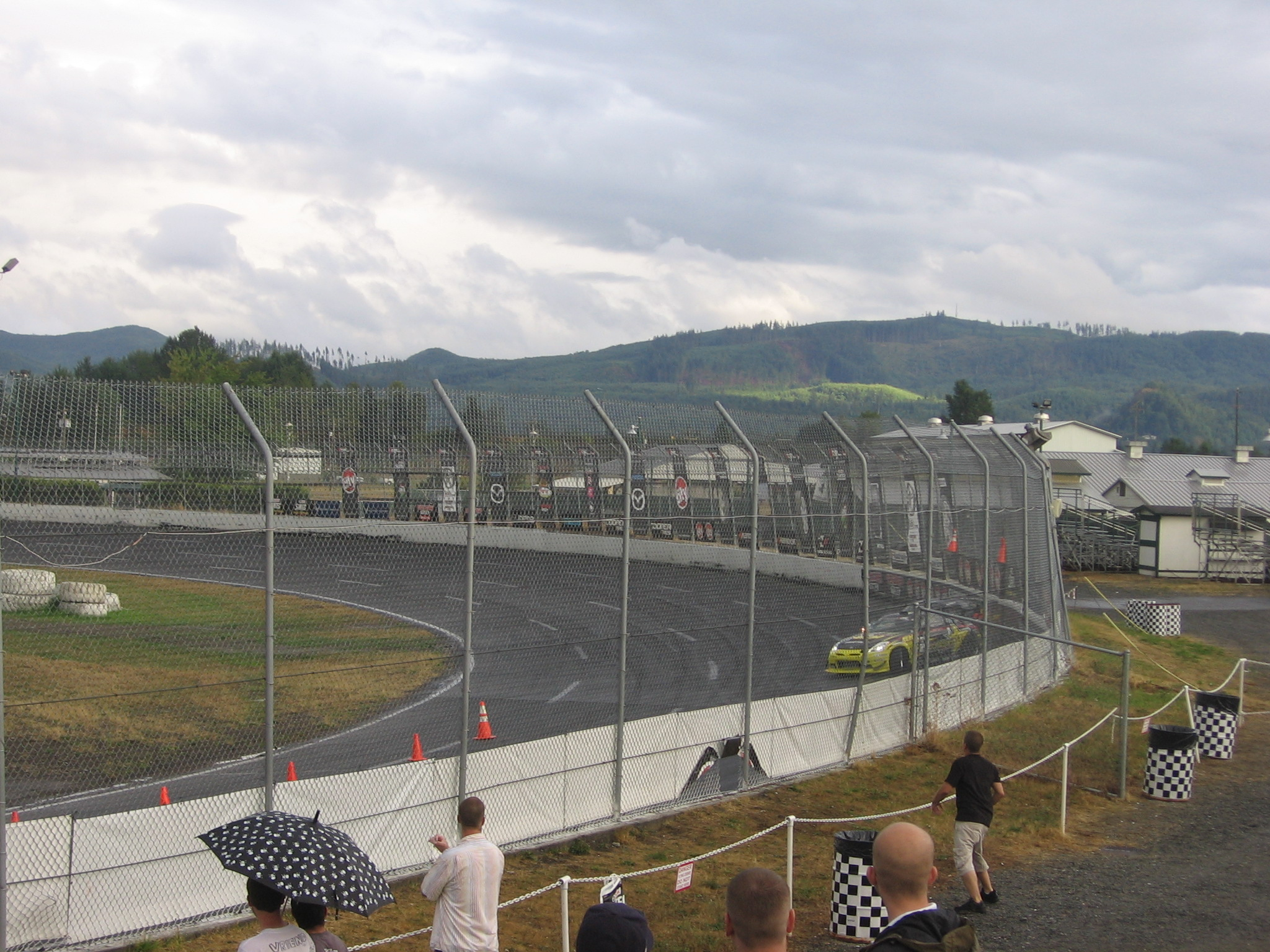 Formula D racing